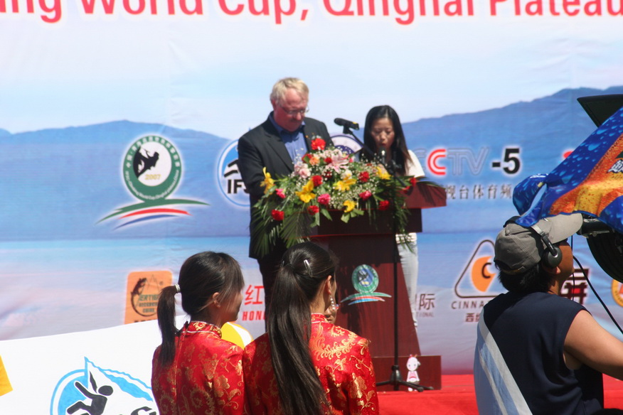 Lenselink at IFSC World Cup 2008 Xining, Qinghai, China